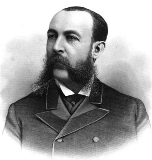 George Harrison Barbour 1890 portrait